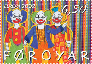 Europe 2002 - CircusStamp FO 415 of the Faroe IslandsDate of issue: 8 April 2002